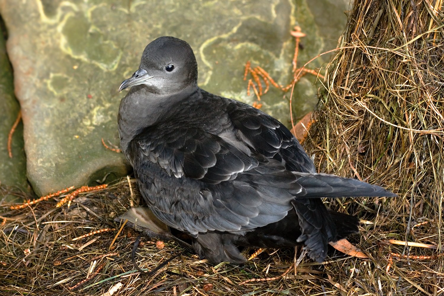 Short-tailed Shearwater (Puffinus tenuirostris) Fledgling Camera data Camera Canon EOS 400D Lens Canon EF 50mm f1.8 Focal length 50 mm Aperture f/4 Exposure time 1/100 s Sensivity ISO 400